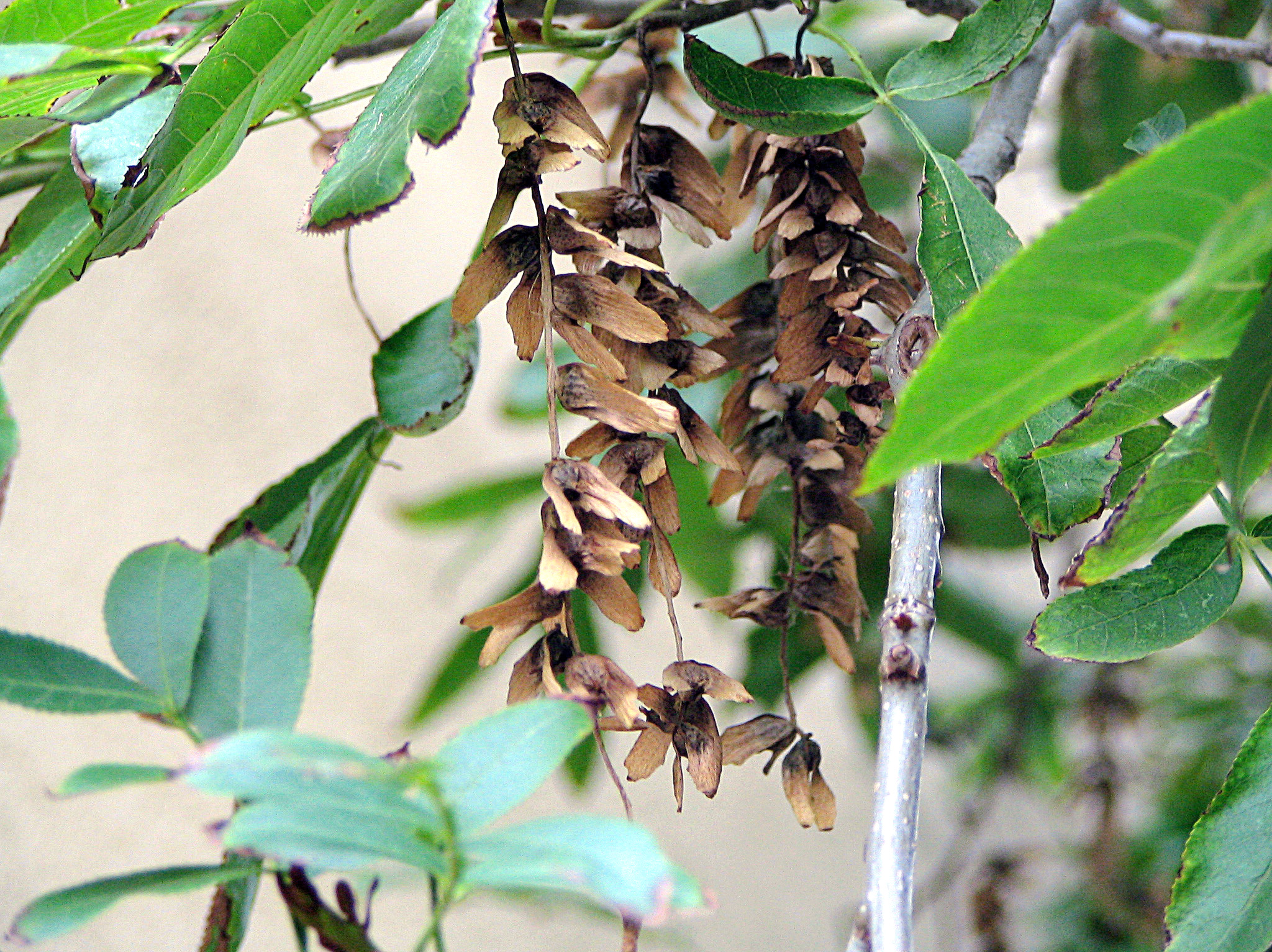 Pendulous clusters of Chinese Wingnut (Pterocarya stenoptera) nuts Arboretum of University of Forestry – Sofia (photo: Mihailo Grbic)